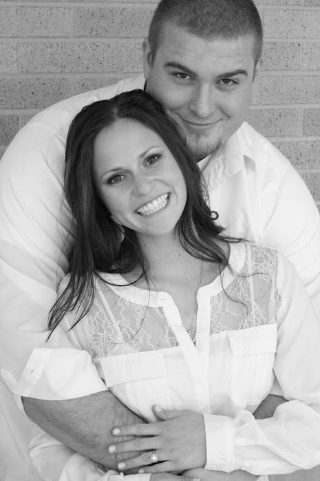 Tyler and Samantha Larsen Engagement Portrait. Both athletes at Utah State University